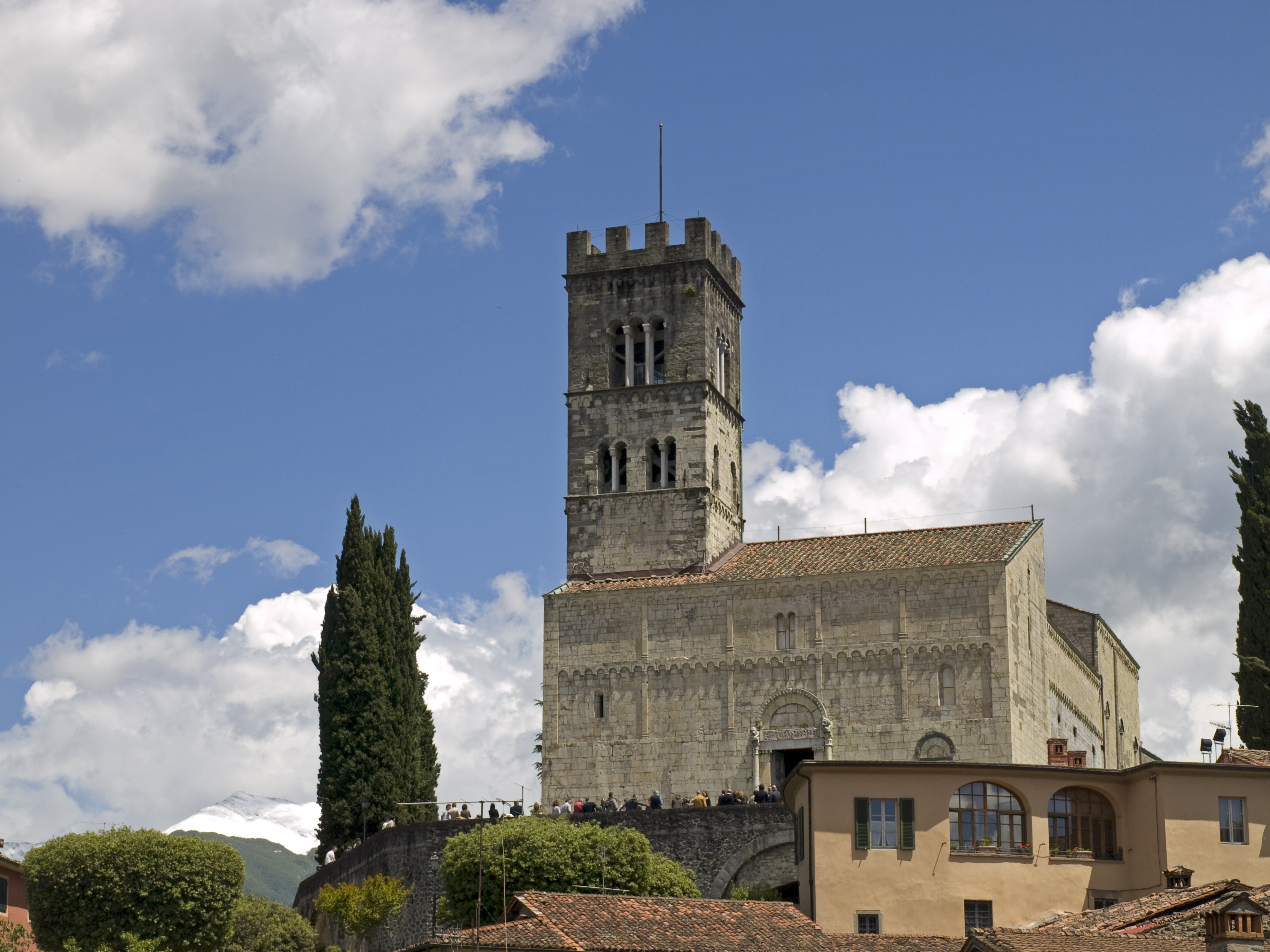 The Cathedral (Duomo) of Barga